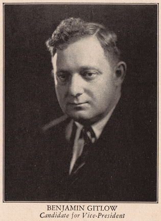 Benjamin Gitlow, 1928 Vice Presidential candidate of the Workers (Communist) Party of America. Official Campaign photo, not copyrighted at the time of use, scanned by me expressly for Wikipedia. Original source in Tim Davenport collection. The above is a 5 cent pamphlet published in 1928 by the Workers (Communist) Party as part of its election campaign. This photograph was published in William Z. Foster and Benjamin Gitlow: Acceptance Speeches. New York: Workers Library Publishers, 1928, photo plate between pages 6 & 7.